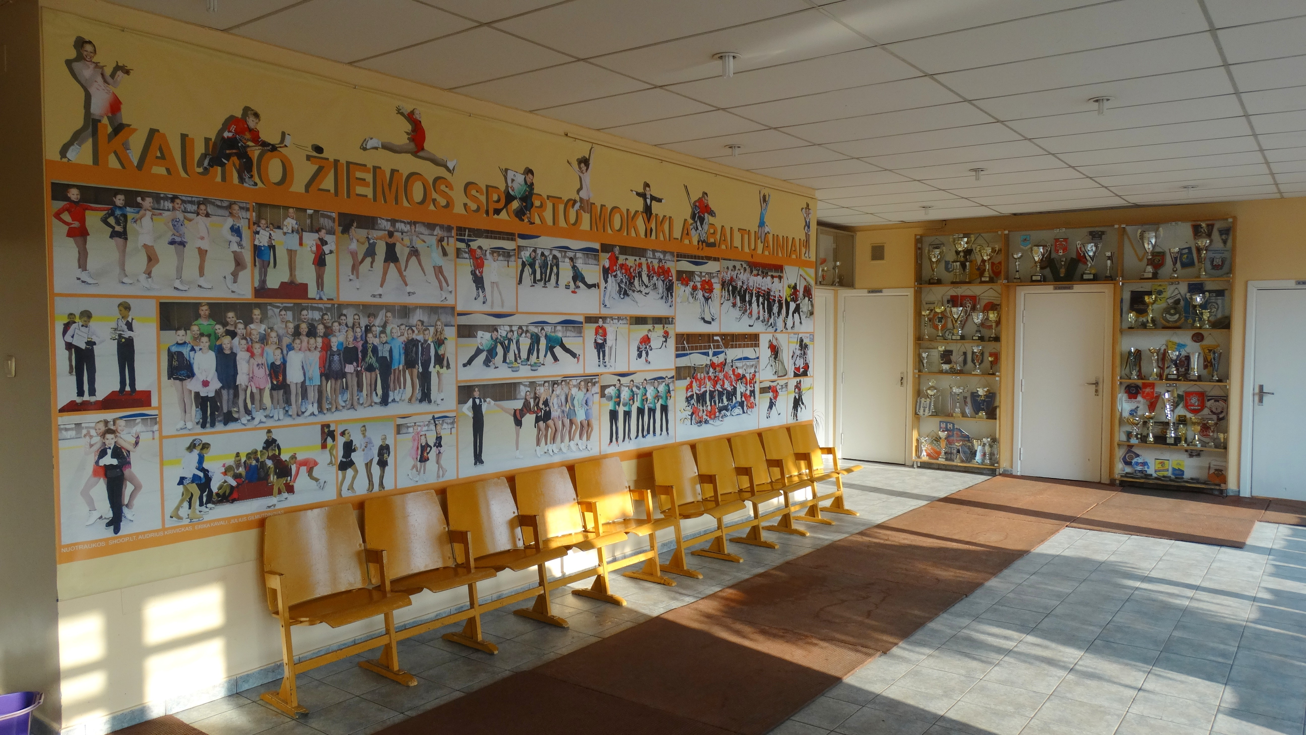 Ice arena, Kaunas, Lithuania